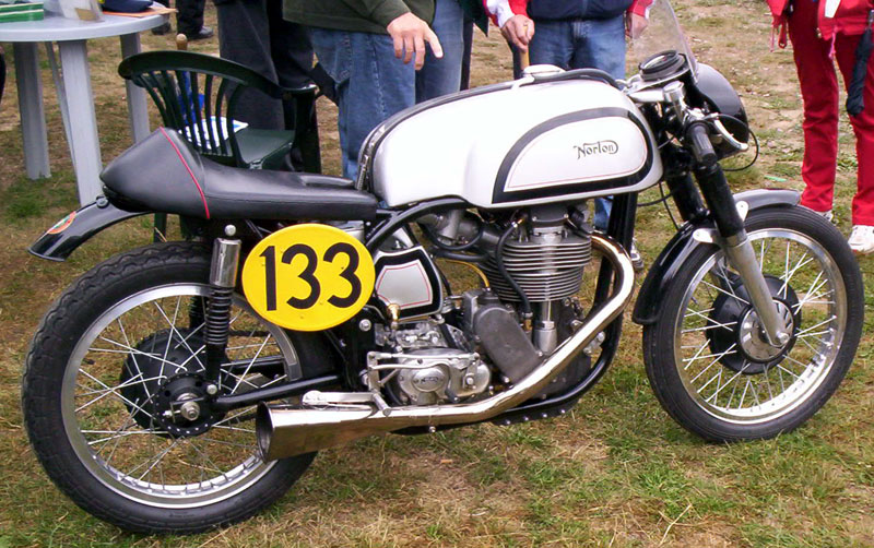 Norton Manx 500 cc Racer 1957